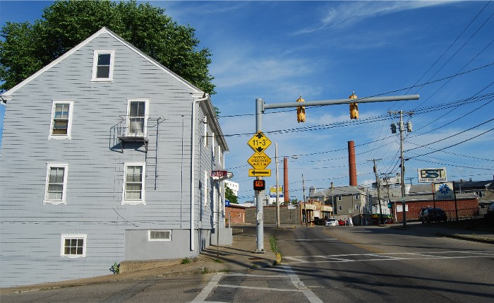 Broad Street, Central Falls, Rhode Island (village of Valley Falls)